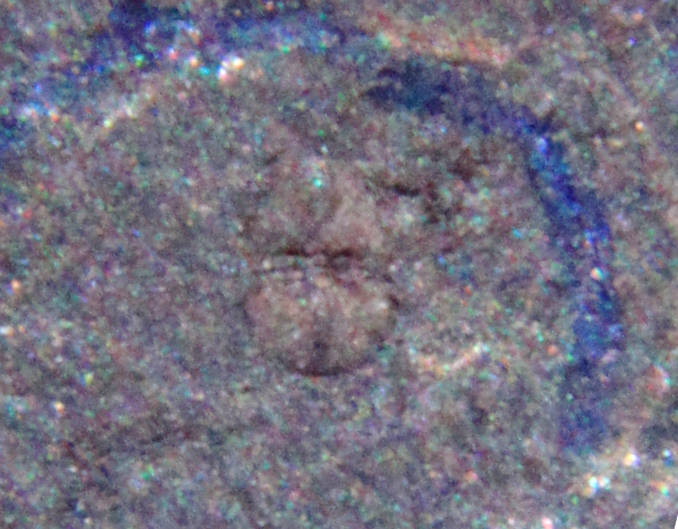 A Thoracocare minuta trilobite, 2.0mm along the midlinde, Order Corynexochida, Family Zacanthoidae, collected from the Spence formation, near Oneida Narrows, Idaho, USA, from the early Middle Cambrian